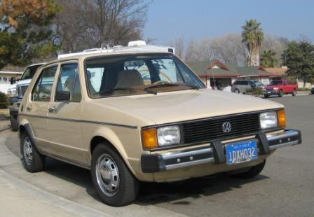 Photo was taken by myself in January 2008. Armona (talk) 02:46, 25 February 2008 (UTC)